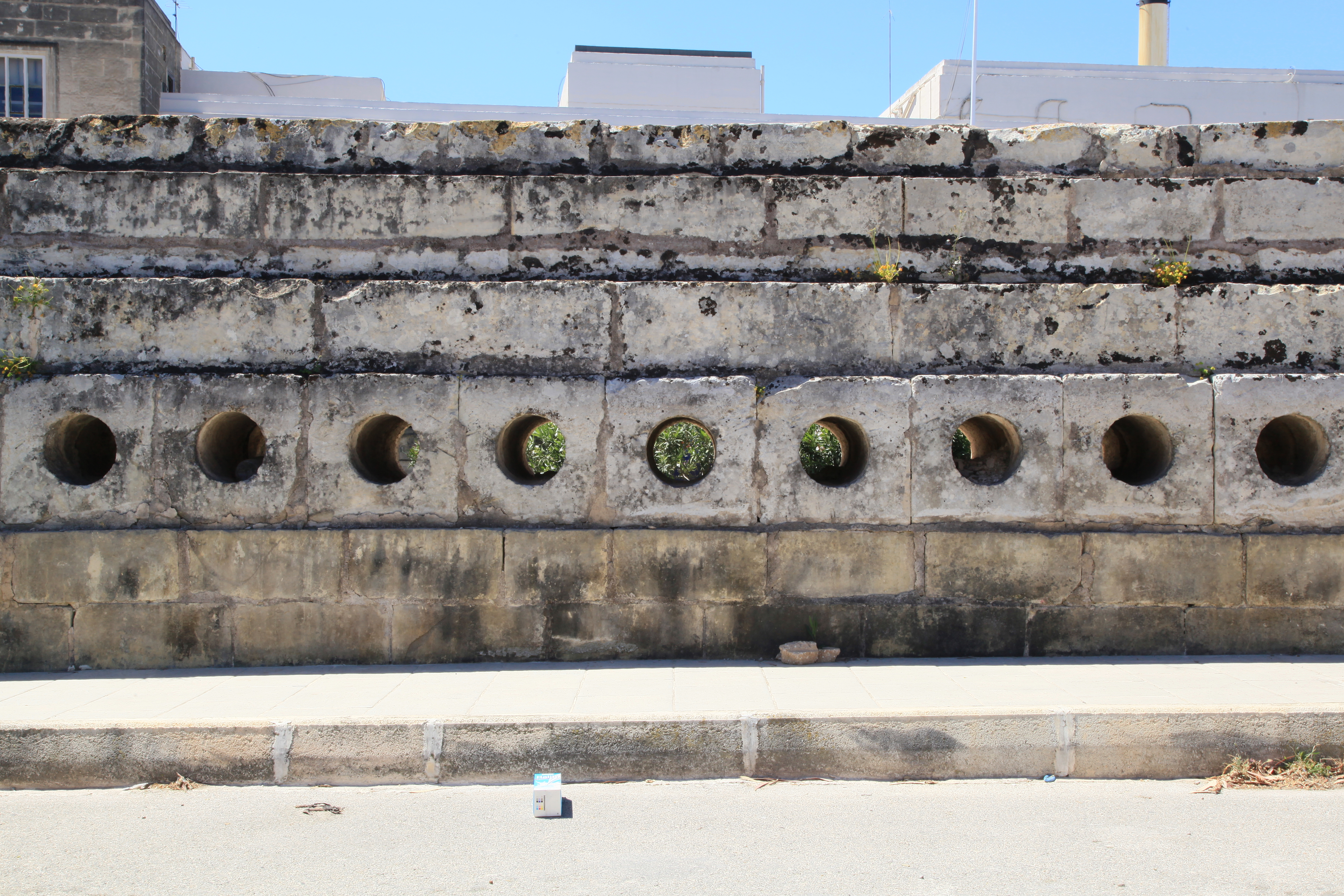 Wignacourt Aqueduct at Triq il-Kan. Indri Galea in Birkirkara, Malta